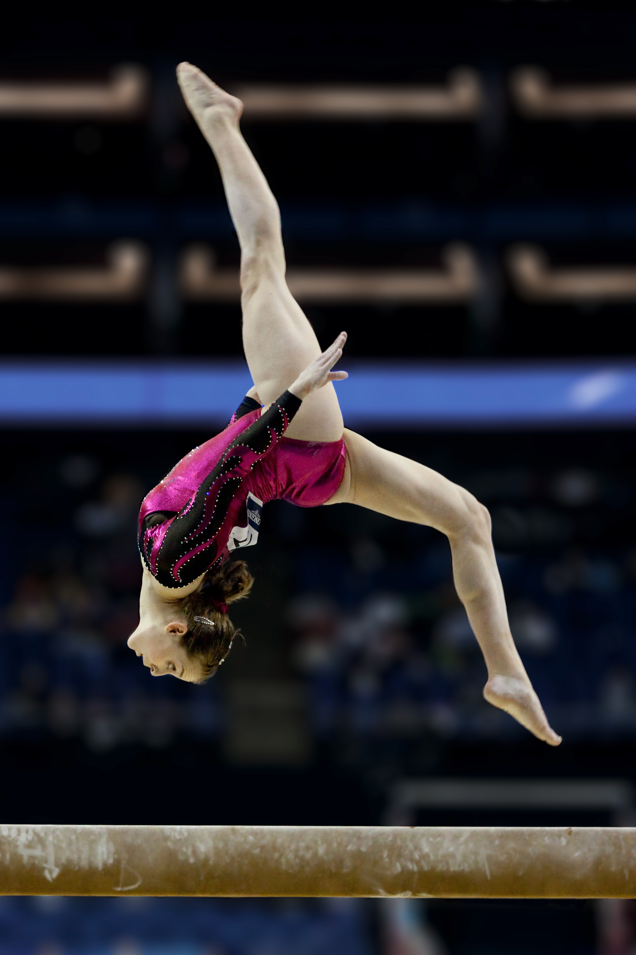 Australian artistic gymnast, Lauren Mitchell, performing a layout step-out on the balance beam during the 41st World Artistic Gymnastics Championships in London, United Kingdom, on 14 October 2009.